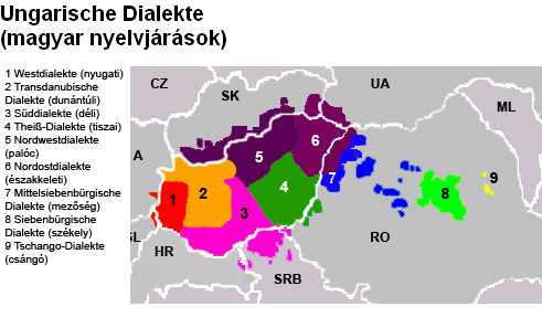 Hungarian Dialects in Hungary and other countries. The image is own work, based on an other Wikimedia Image, information sources were Ungarische Dialekte and [1]